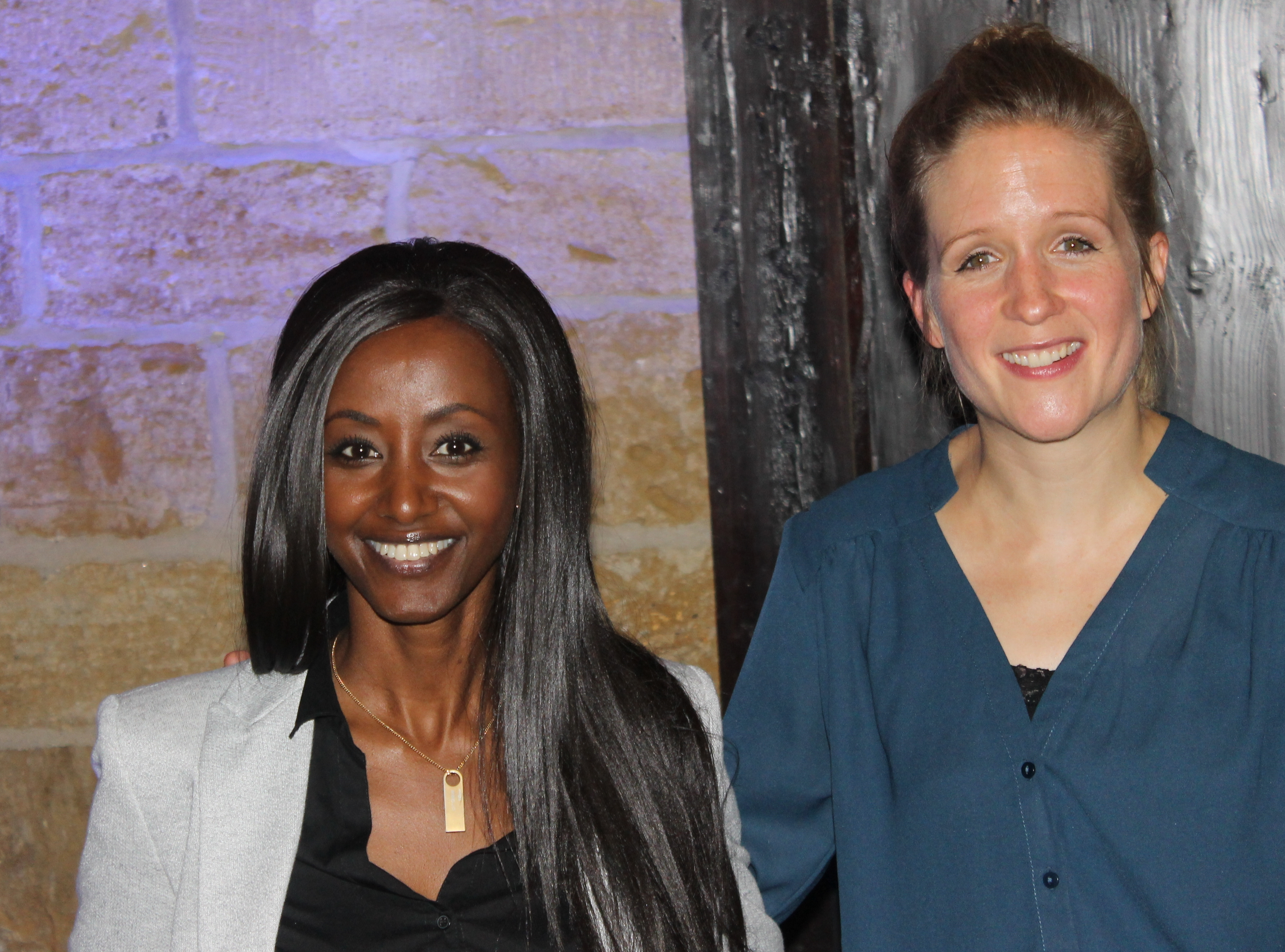 Swedish author Jenny Rogneby (left) and German actress Julia Nachtmann at a reading in Goslar